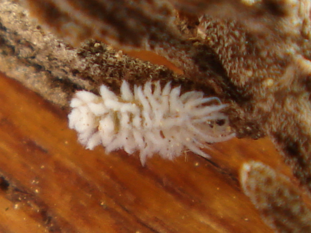 Larva of ladybug (Coccinellidae) of subfamily Scymninae, quite probably tribe Scymnini and maybe [i]Scymnus sp.[/i] (if anyone knows better please correct!). About 2mm long. White stuff is a wax cover that rubbs off.